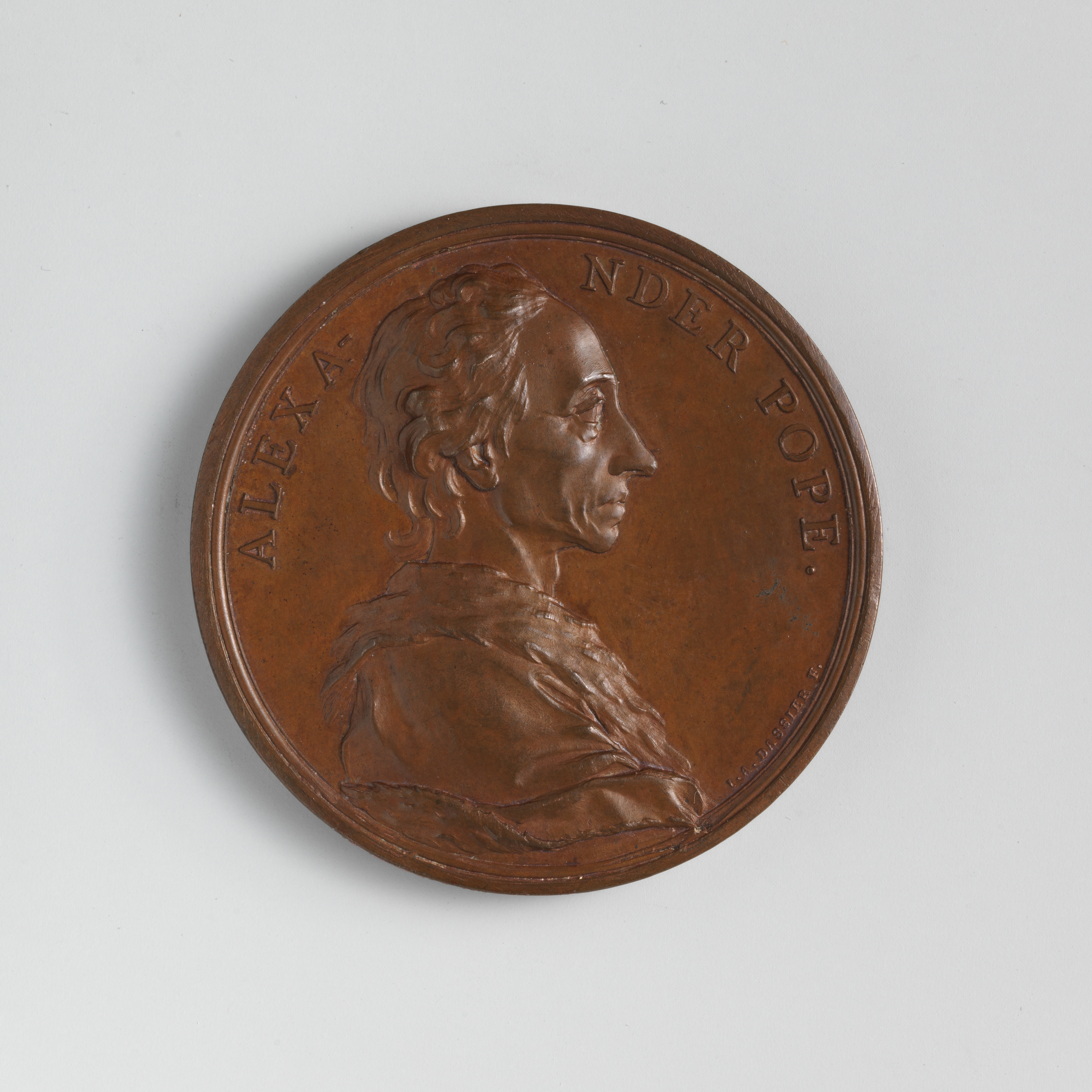 Swiss; Medal; Medals and Plaquettes